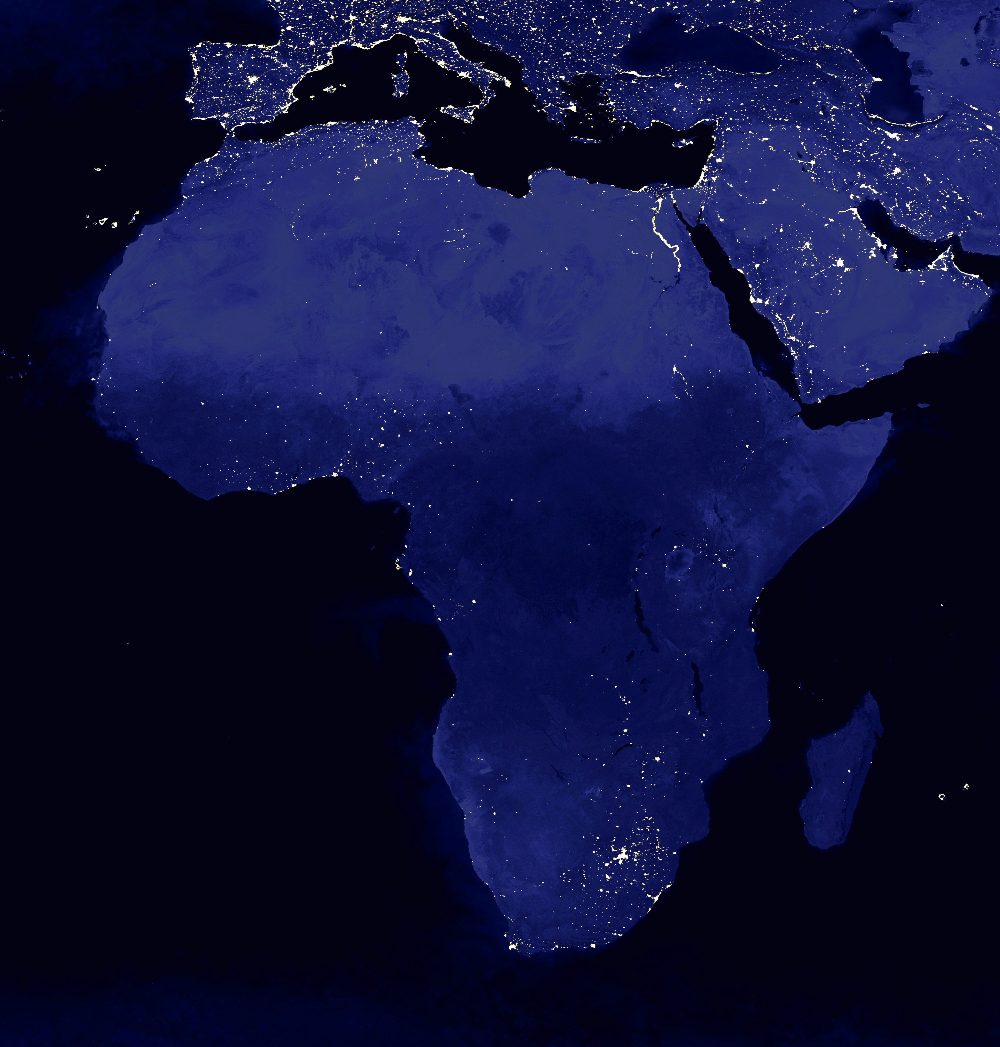 Africa at night (Cropped From